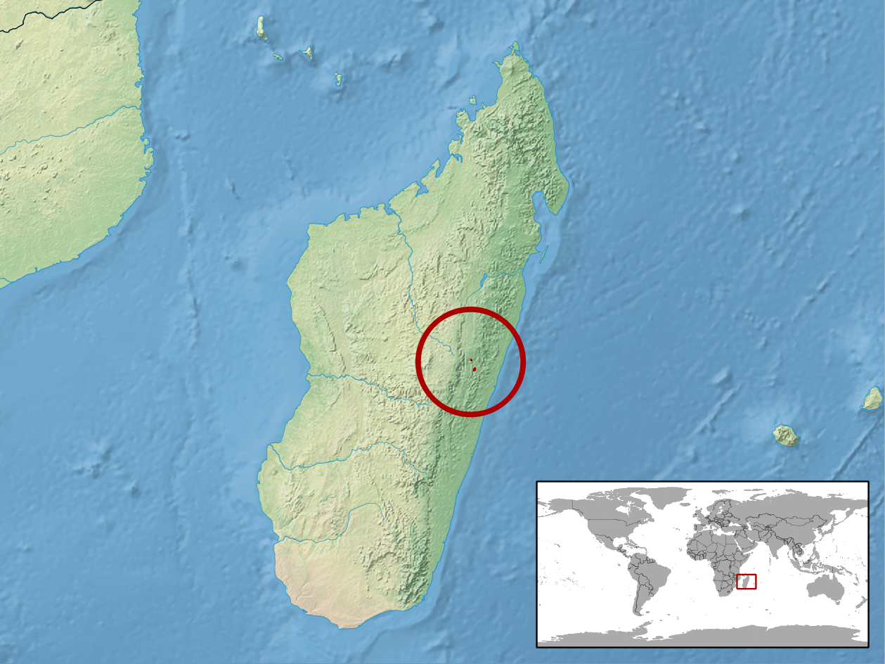 geographic distribution of Calumma tarzan (Native: Madagascar)